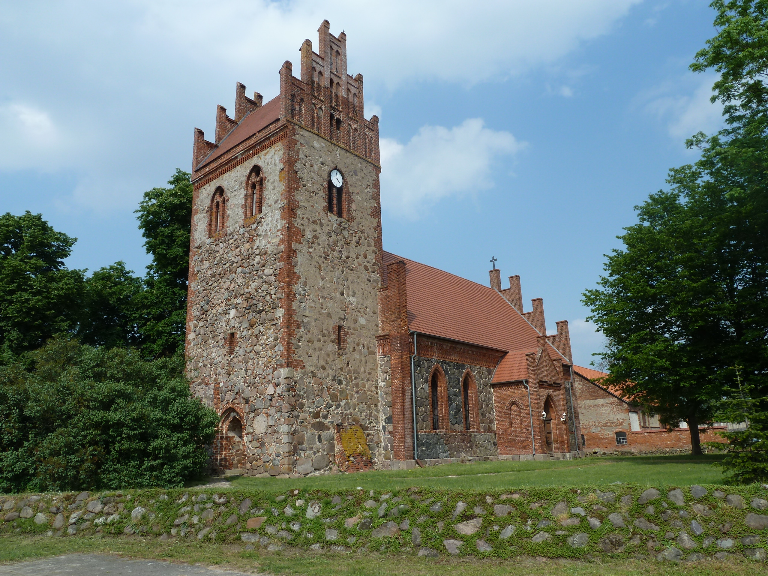 Church in Baek, Groß Pankow, Prignitz, Brandenburg, Germany